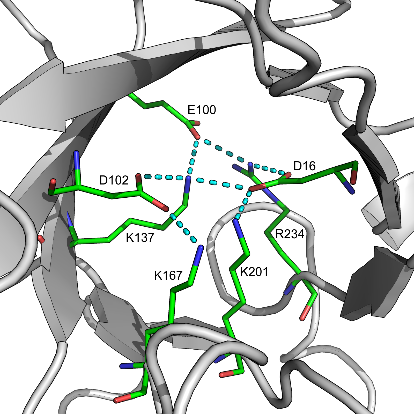 Example salt bridge network in 2-deoxyribose-5-phosphate aldolase (PDB ID: 1P1X).